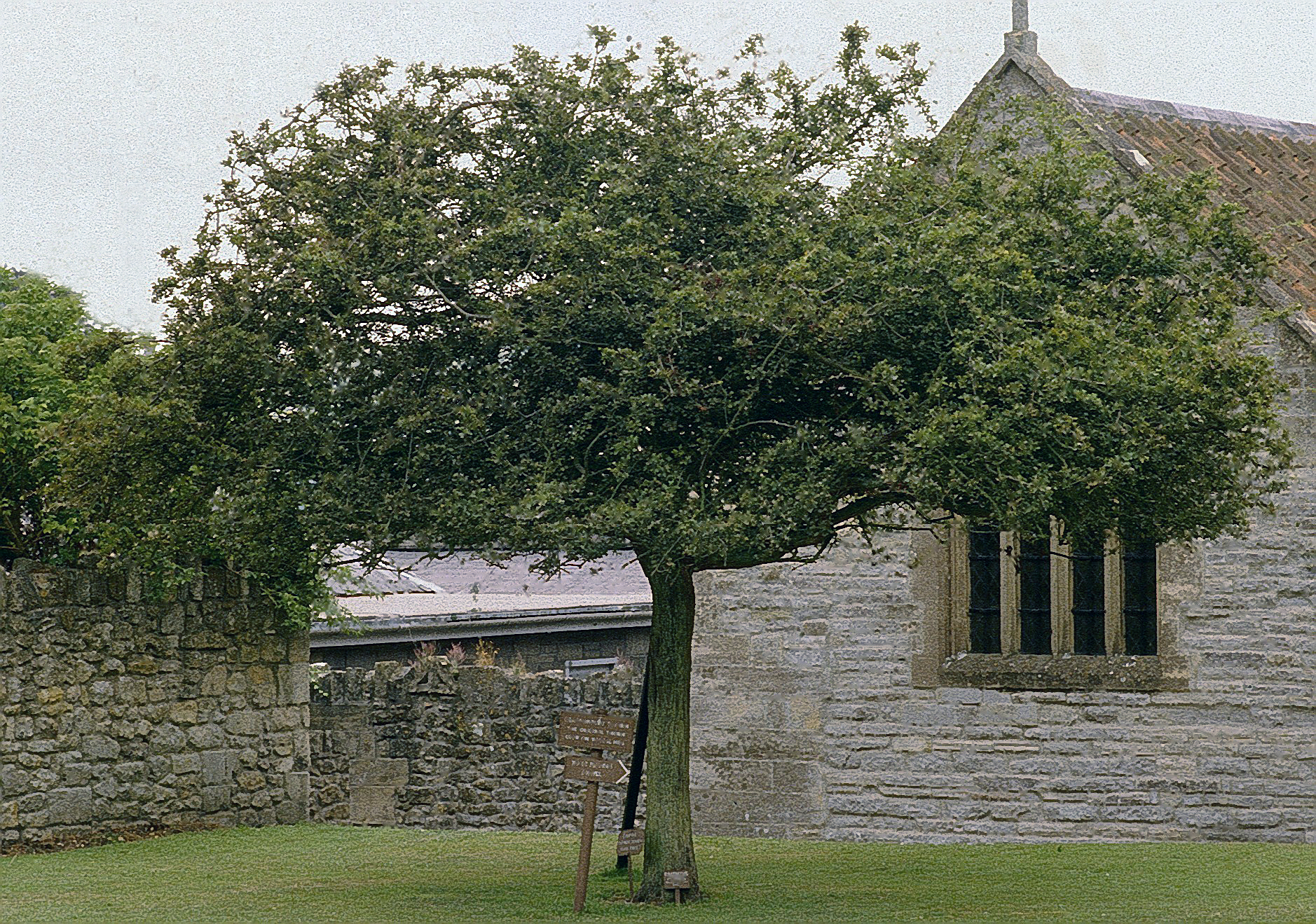 Holy Glastonbury Thorn - On the grounds of the former Glastonbury Abbey, UK.